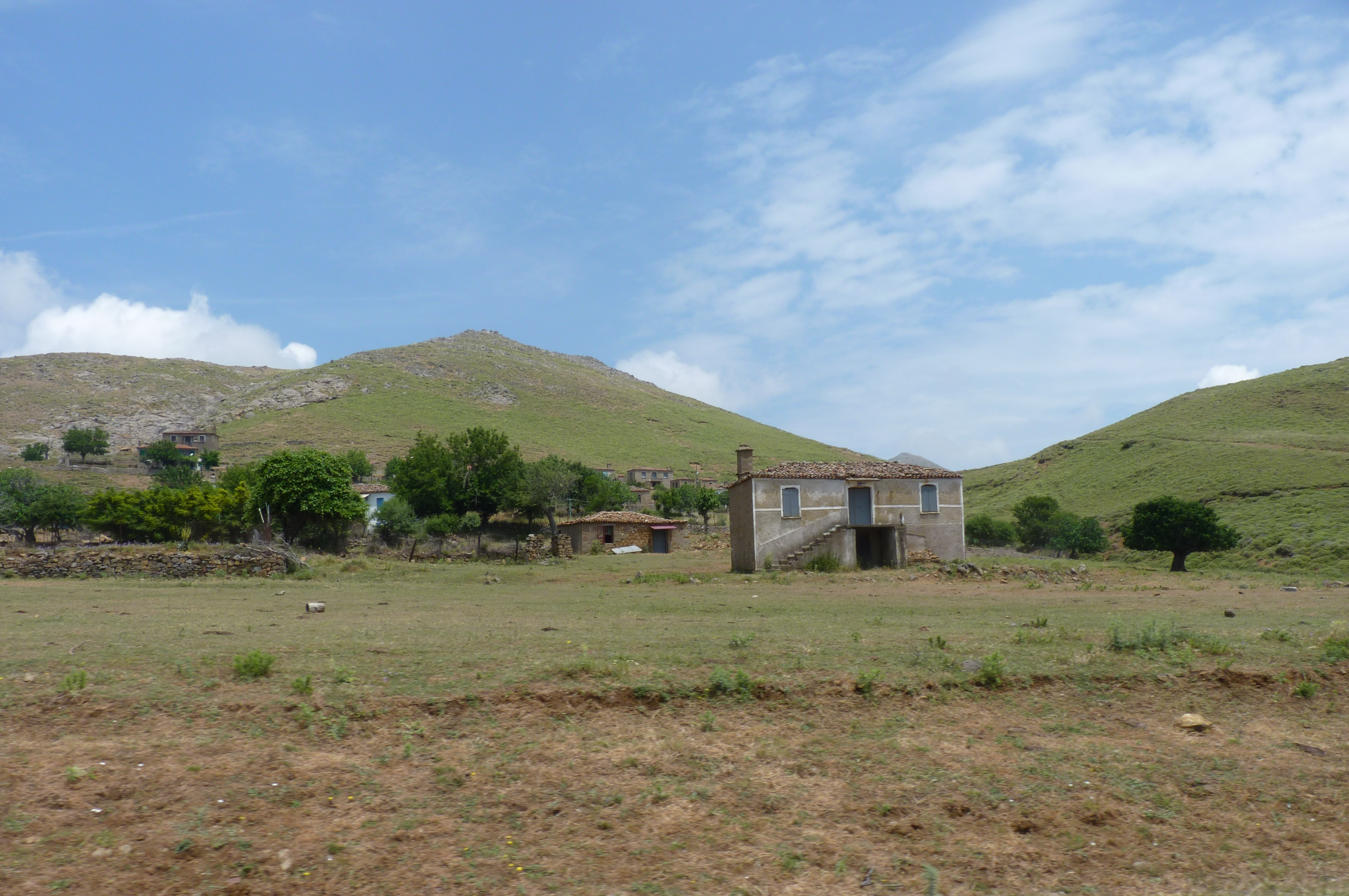 Dereköy - old greek village on Gökceada Island